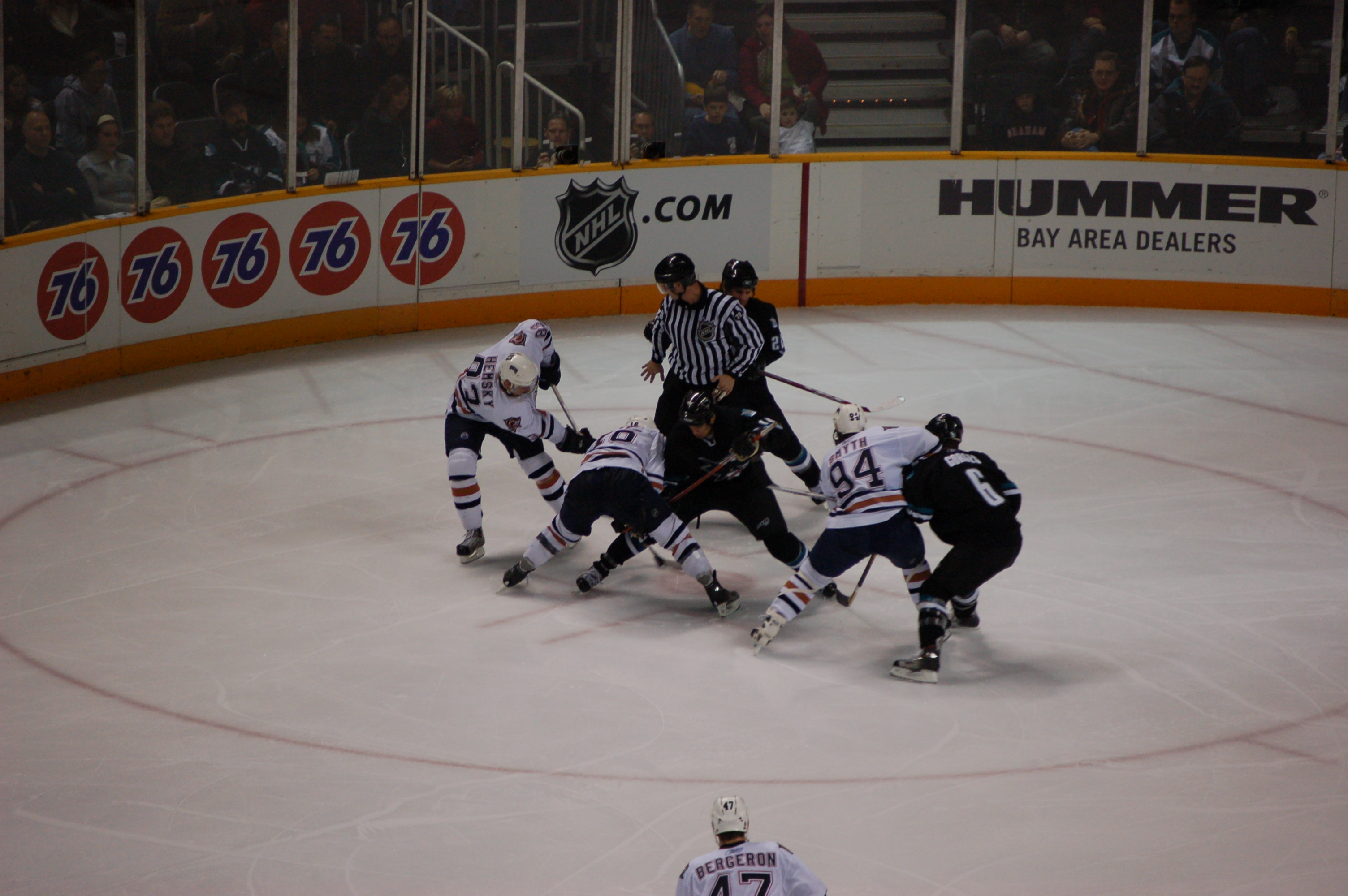 San Jose Sharks vs. Edmonton Oilers